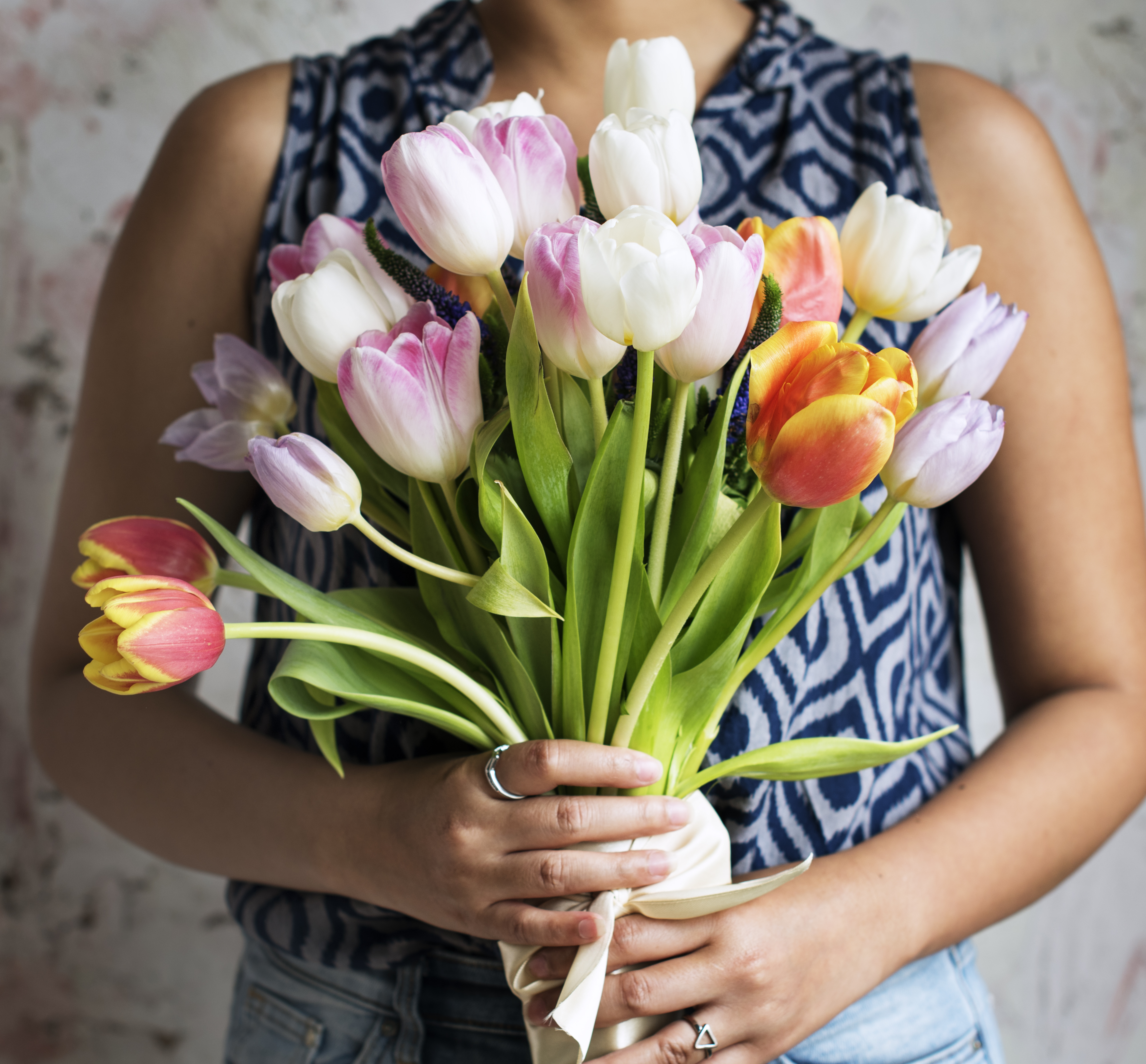 A Woman holding a bouquet of tulips in photographic studio